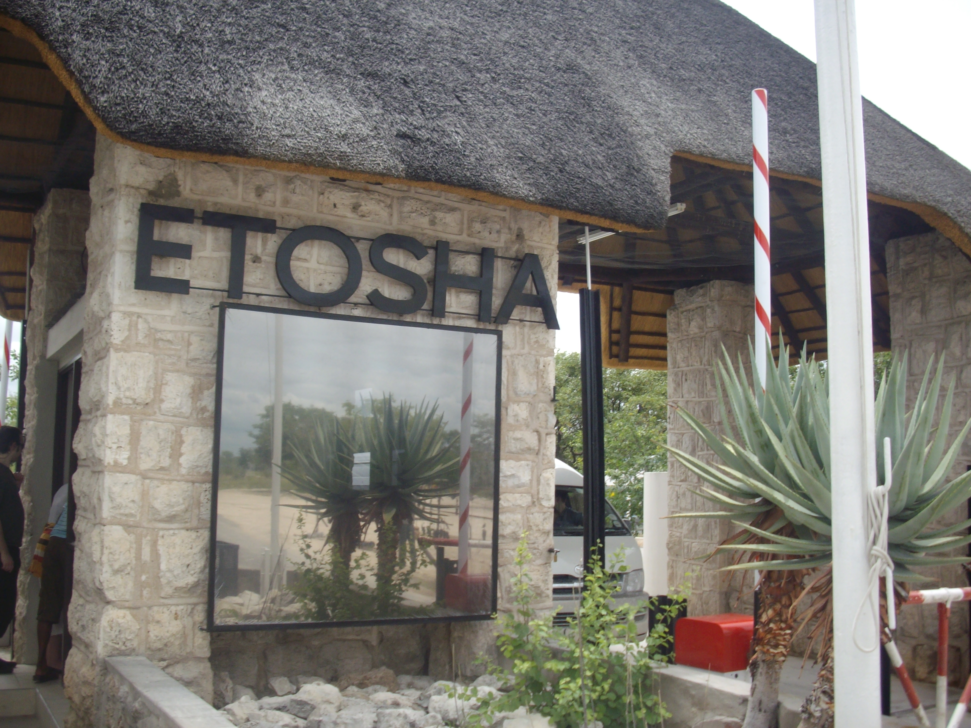 Gate at the Entrance to Etosha National Park